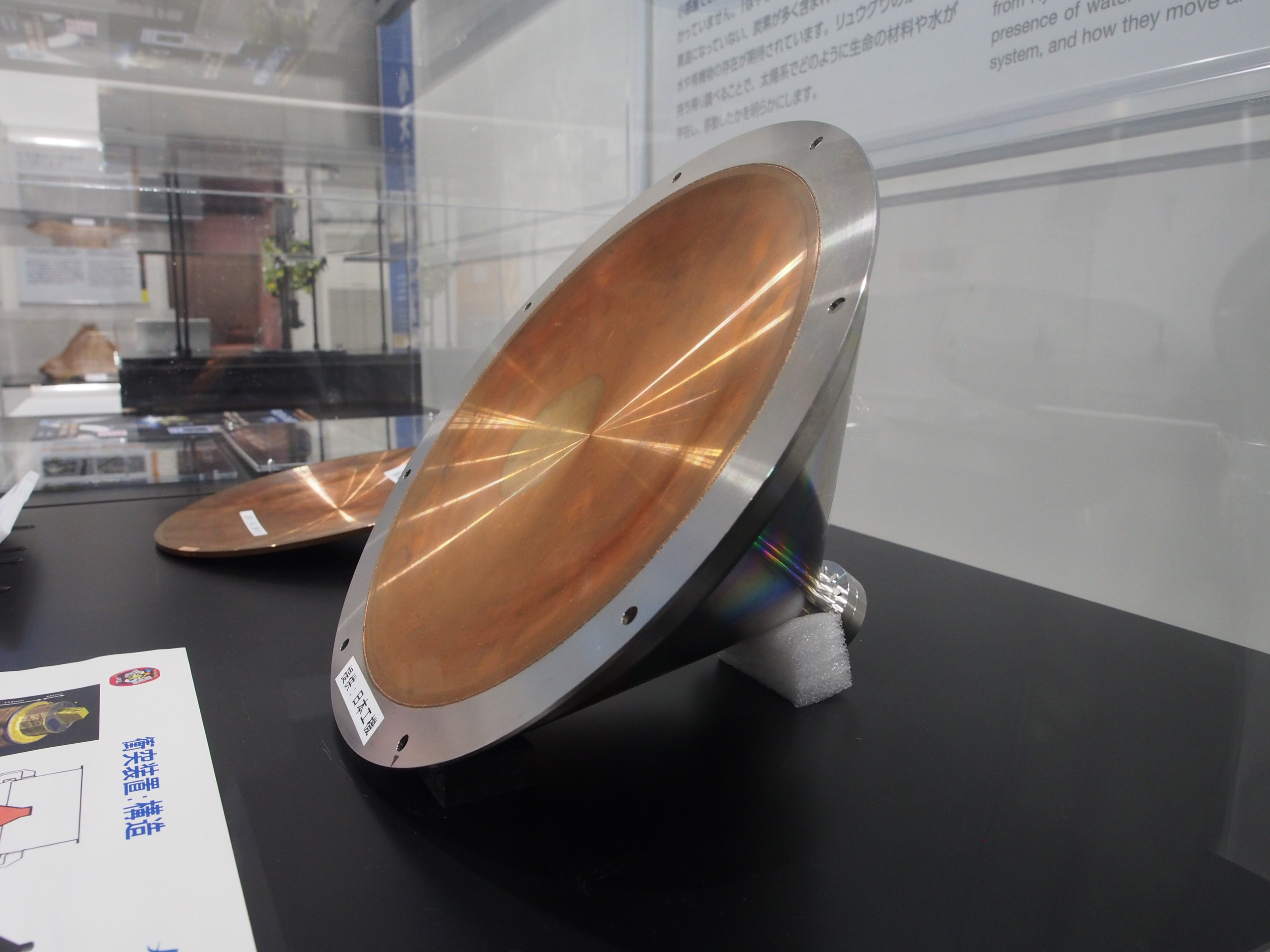 Explosive part of the Small Carry-on Impactor (SCI) of Hayabusa2 asteroid explorer. Copper liner of about 2 kilogram mass is to be accelerated to 2 km/s by the explosive to create a crater on the asteroid surface. Exhibited at the Communication Hall of Space Science and Exploration in Sagamihara Campus, Institute of Space and Astronautical Science (ISAS), Japan Aerospace Exploration Agency (JAXA), , in Sagamihara City, Kanagawa Prefecture, Japan.